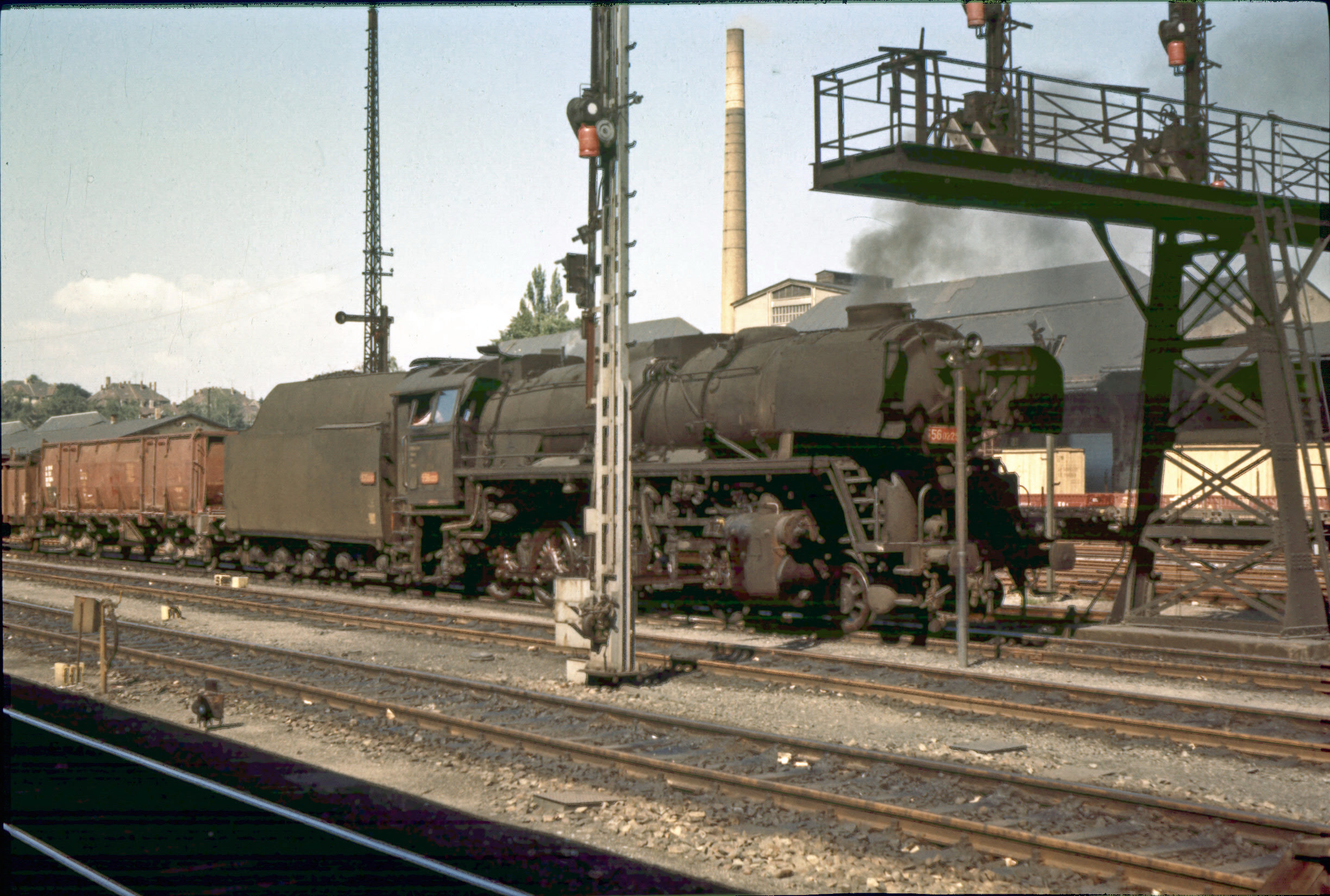 ČSD Class 556.0225 in Zittau CS